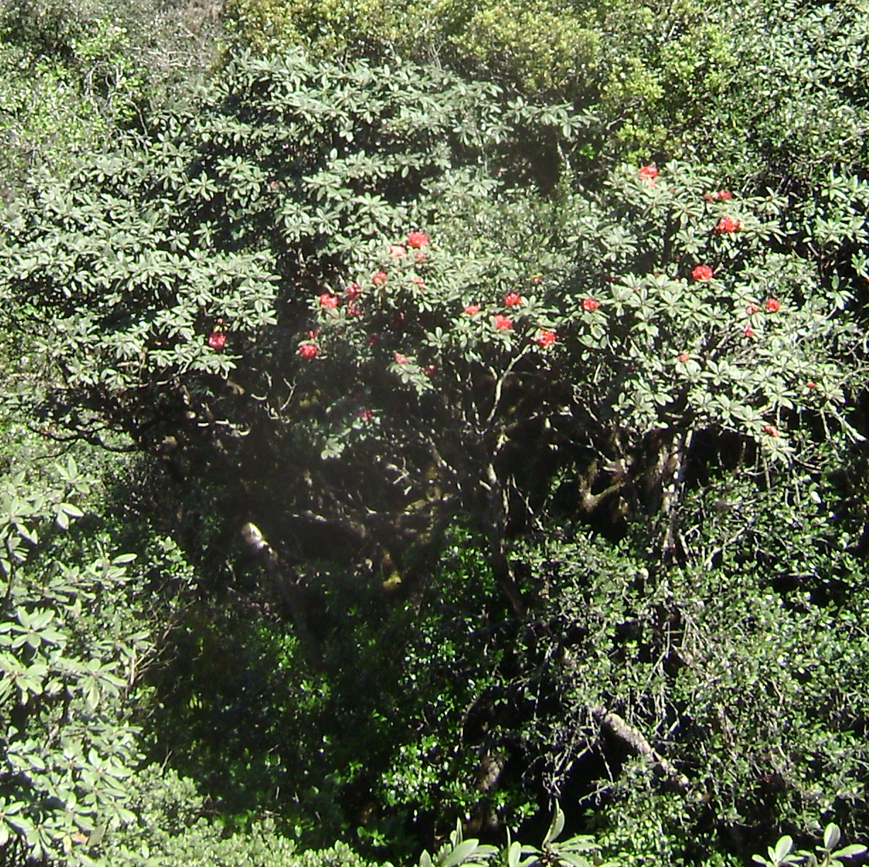 Rhododendron_arboreum at Mukurthi National Park